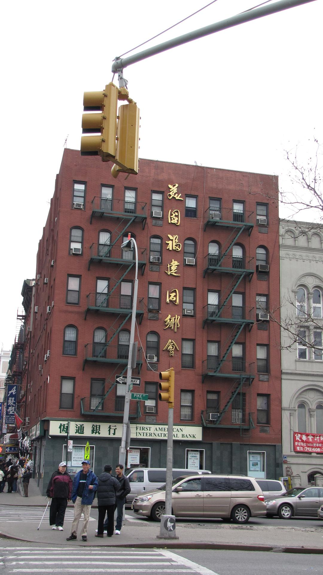 Looking east across Pike Street, at Fukien American Association at East Broadway and Pike Street, New York City